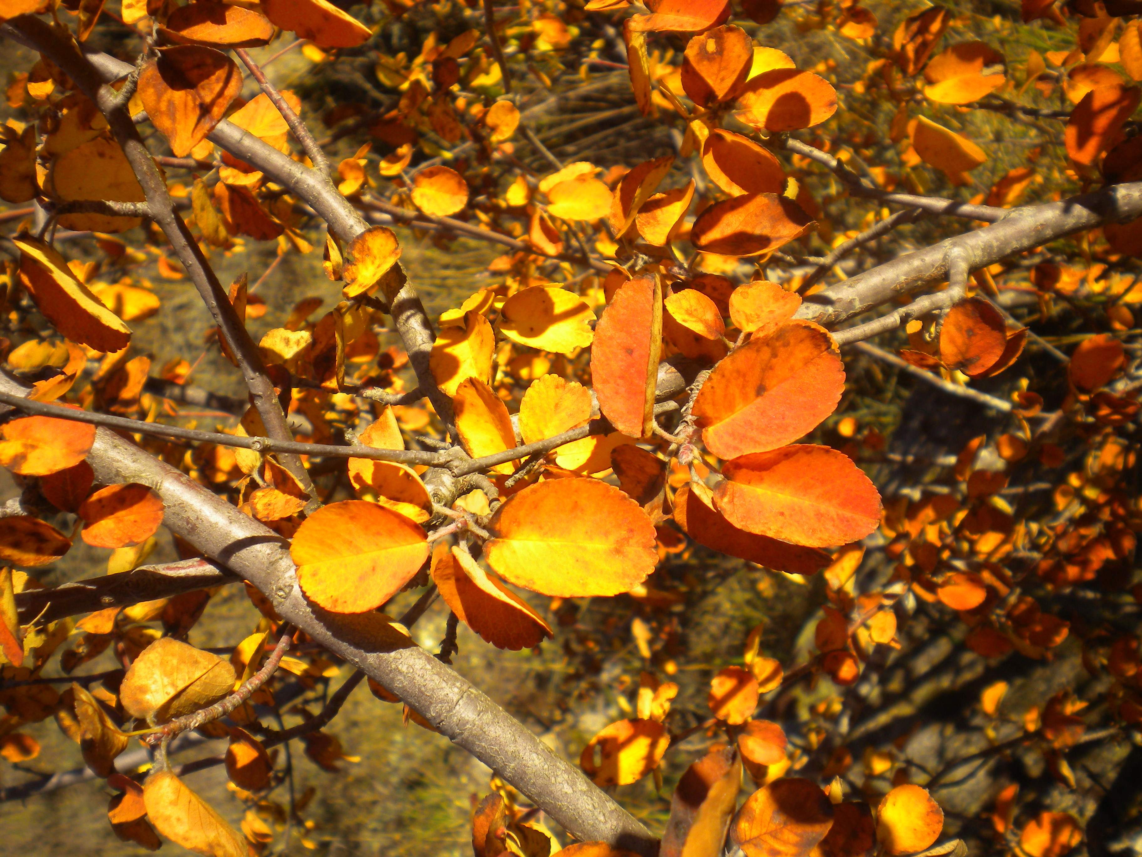 Leaves of Amelanchier ovalis (snowy mespilus) in La Rioja (Spain).